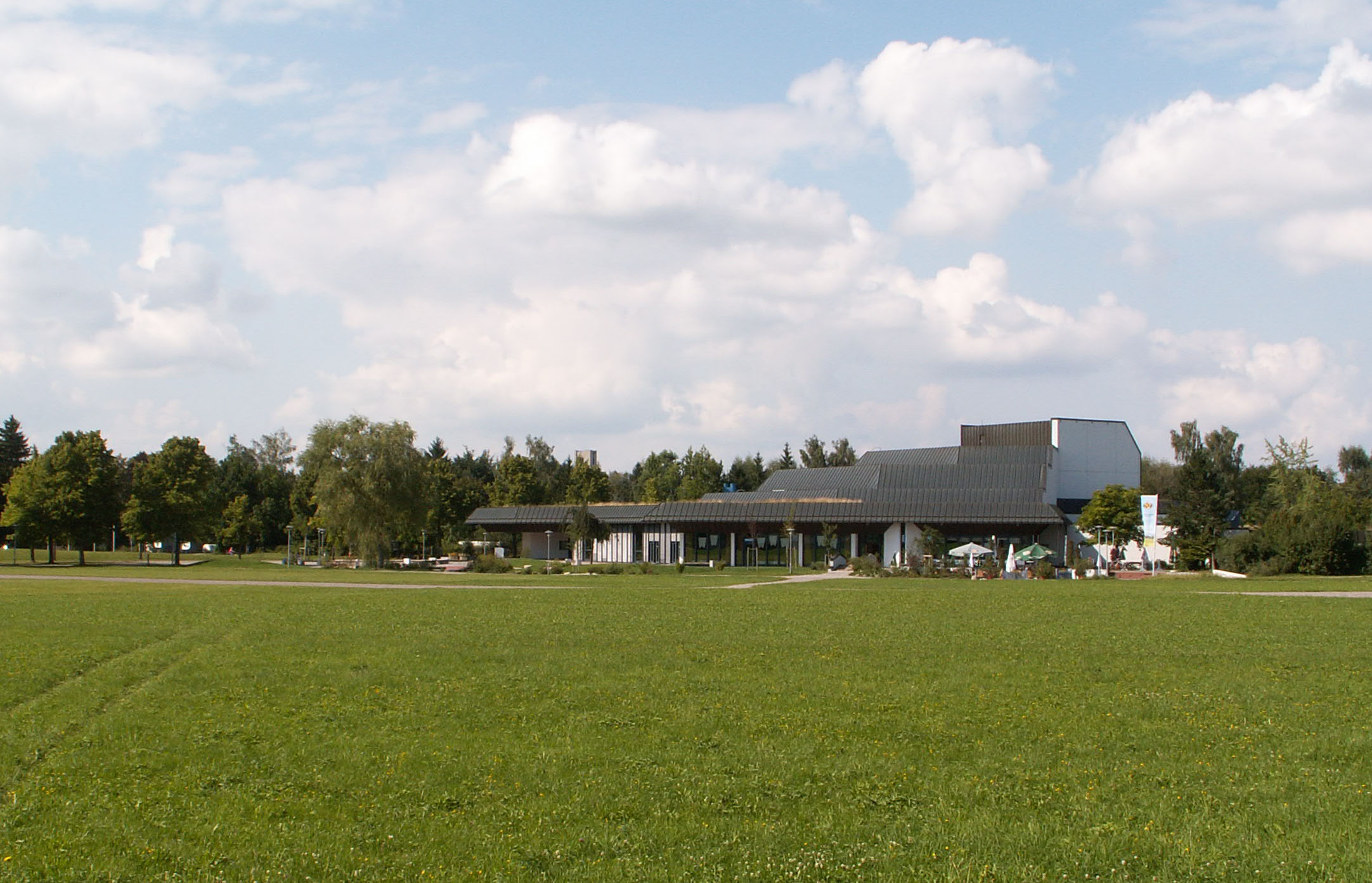 Modeon in Marktoberdorf